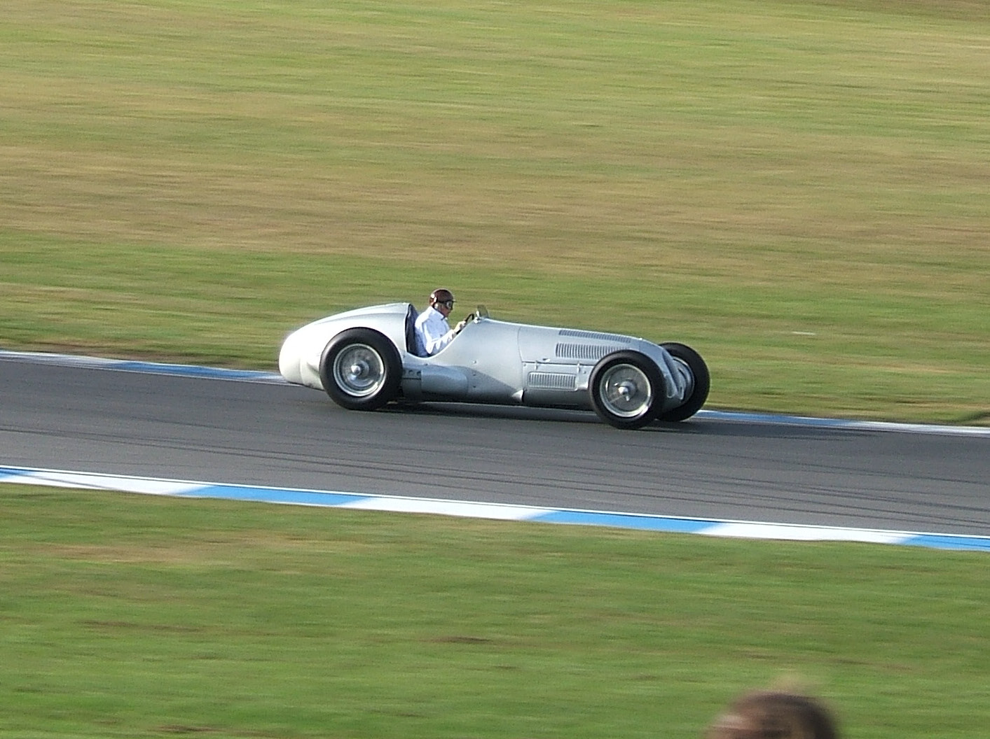 Tony Dron pushes the Mercedes-Benz W 125 hard through the Craner Curves, during the VSCC SeeRed race meeting, Donington Park, September 2007. This car is the very same vehicle that Richard Seaman drove in the Donington Grand Prix. The Craner Curves themselves are the only section of the Donington circuit which survive from that race in almost unaltered form.